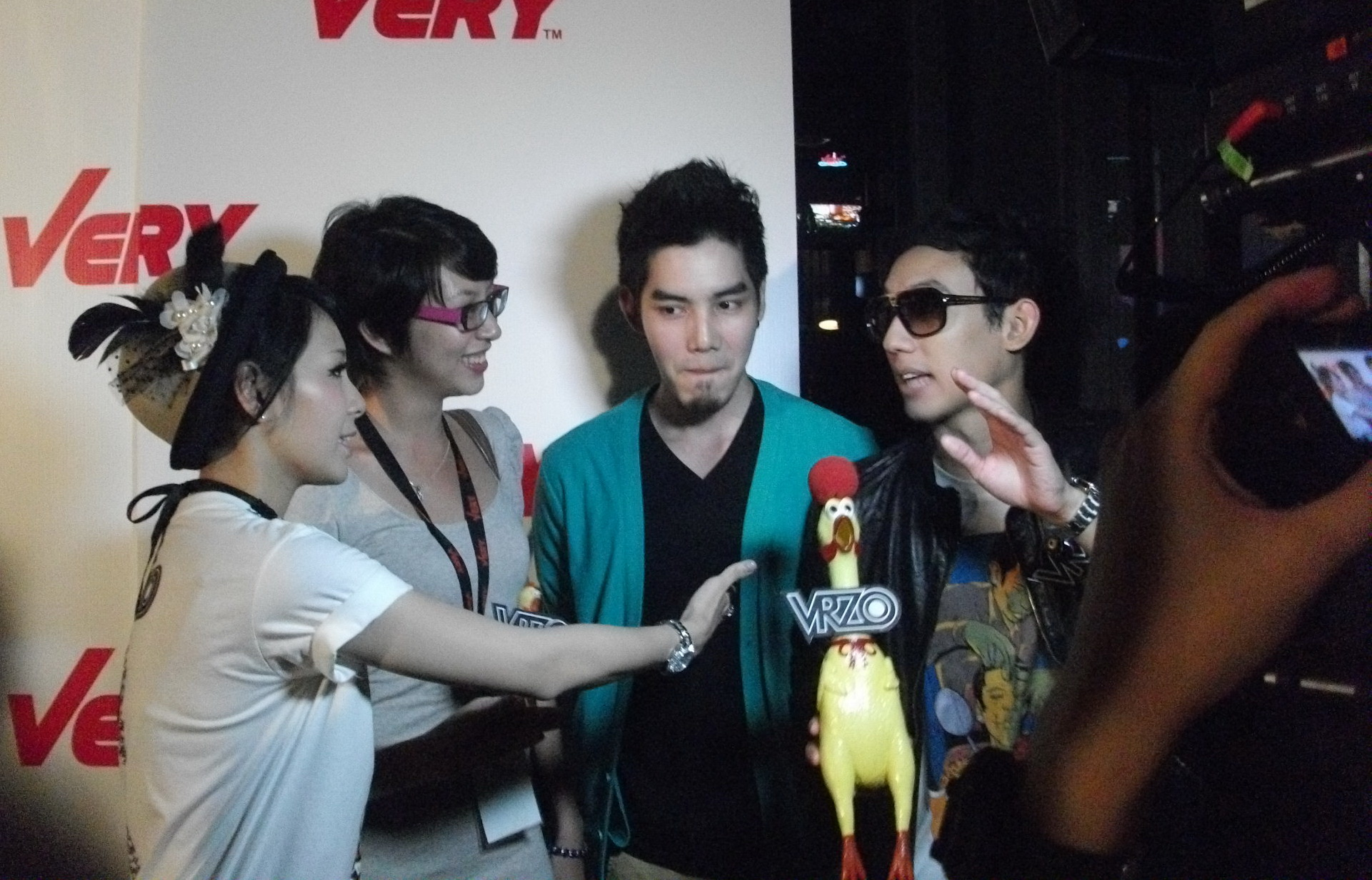 VRZO at 1st Anniversary of VERY TV Unknown